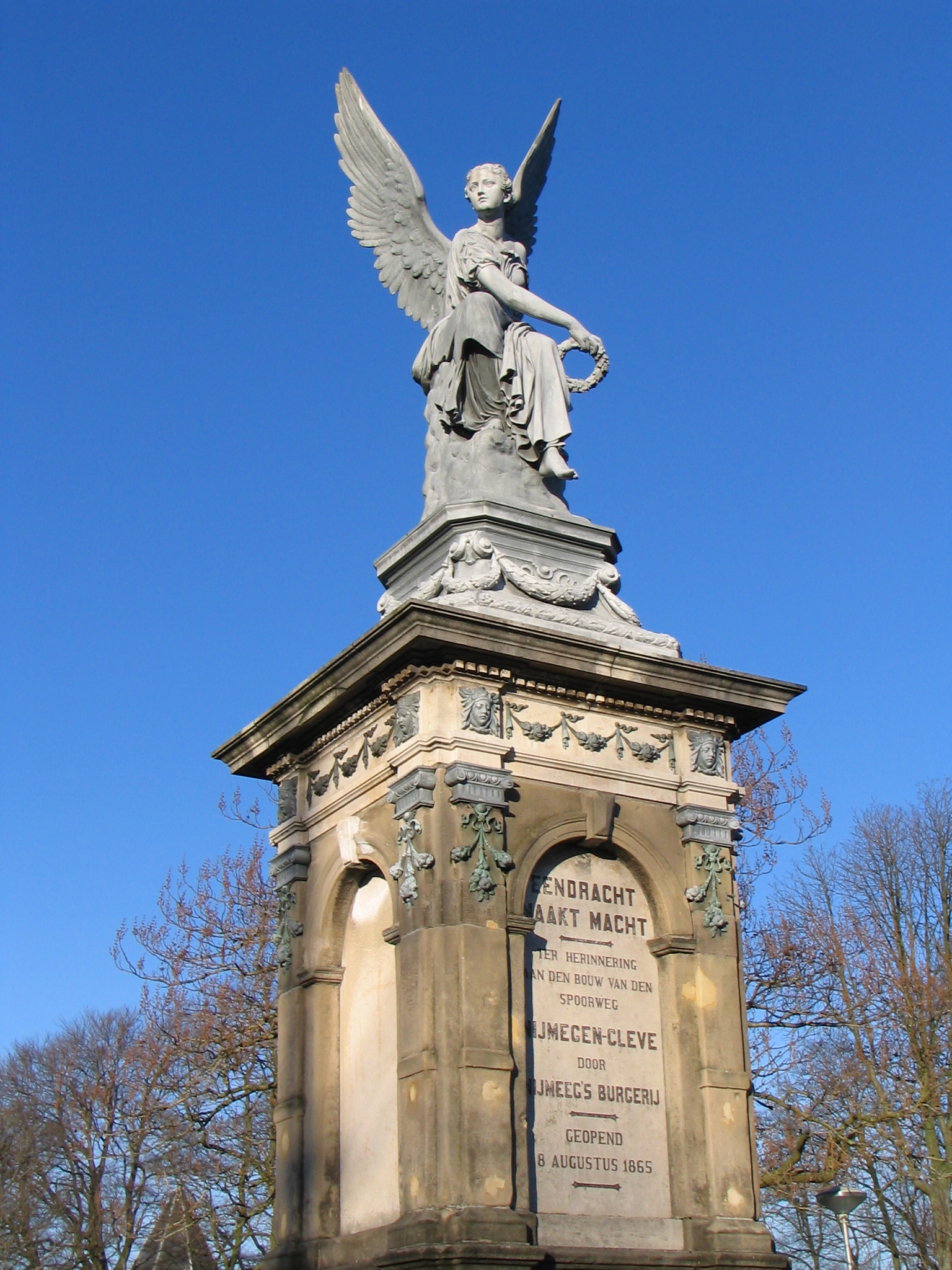 Picture of the railroad monument, built in 1884, to honor the succesful fundraising and subsequent construction of the railroad from Nijmegen (Netherlands) to Kleve (Germany) in 1865.